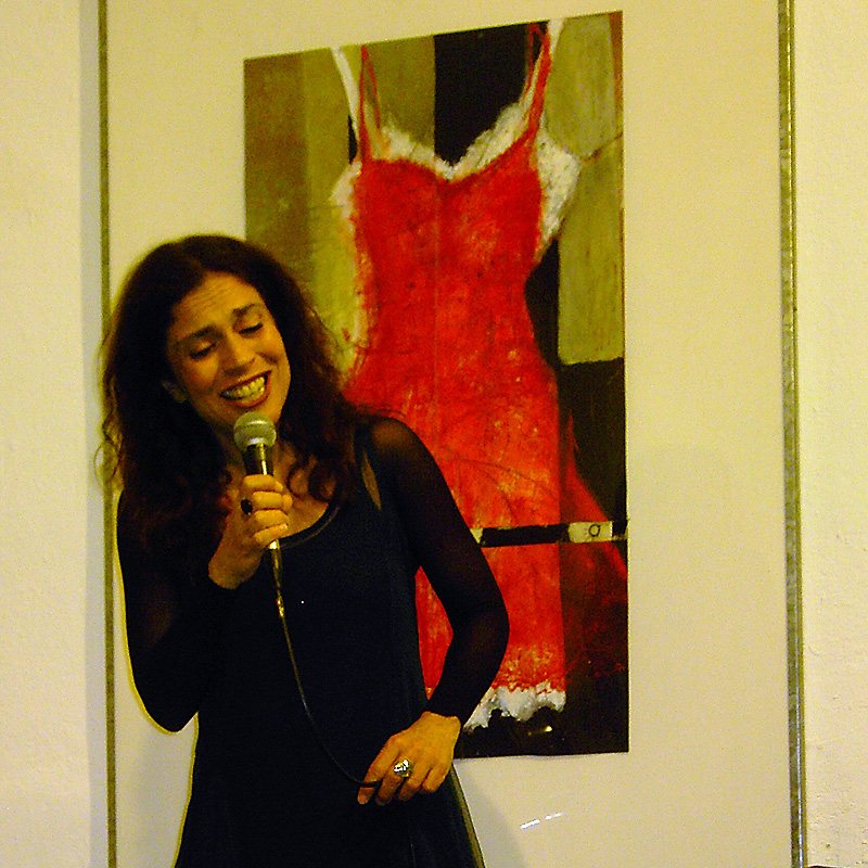 The Greek musician Savina Yannatou, concert in ort e.V. Wuppertal, April 2009